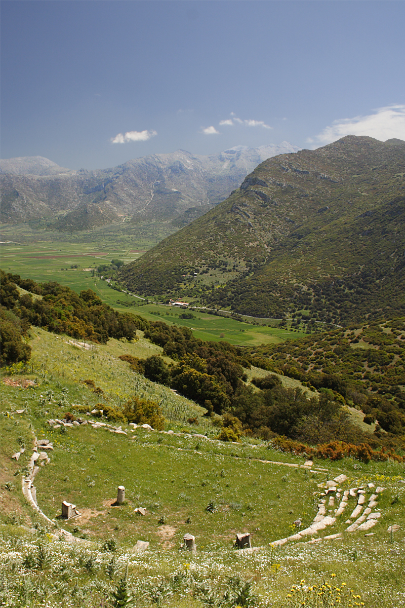 Orchomenus is an ancient Greek town, Arcadia, Peloponnese. In the back: A closed karst depression. Of its 7,7 km roughly 2,4 km are visible in this photo. In the still existing book “Description of Greece”, Pausanias (ca. AD 110 – 180) describes Arcadia and Orchomenus, its theatre (photo) and a plain, which is covered by a lake. Today farmers complain, that fields remain wet or even flooded for too long, in spite of drainage: katavothres (Greek term for ponors) and one artificial tunnel do not drain fast enough.